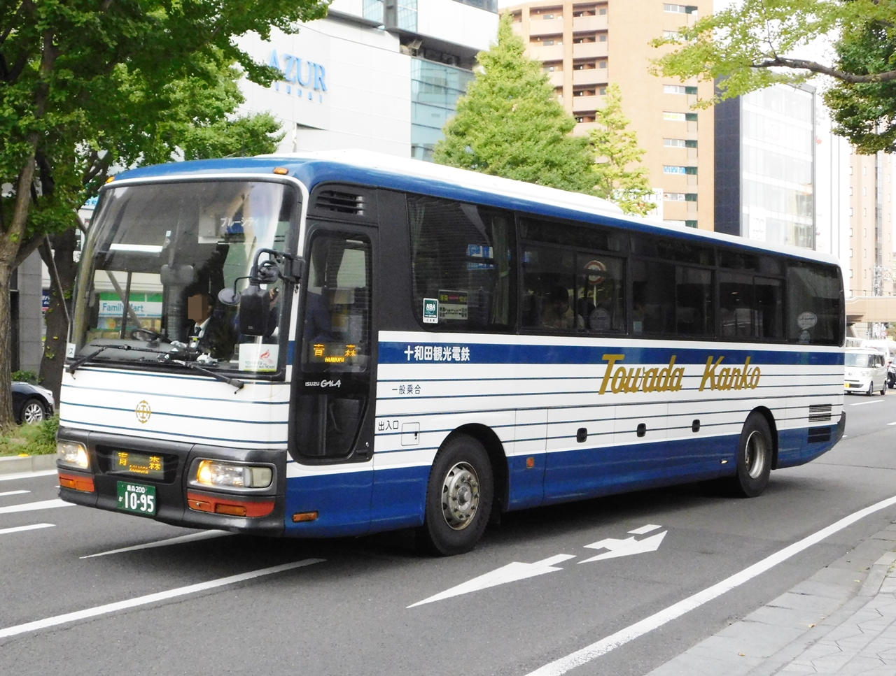 Towada Kanko railway bus Isuzu Gala (KL-LV774R2)highwaybus "Bluecity"(Aomori-Sendai)